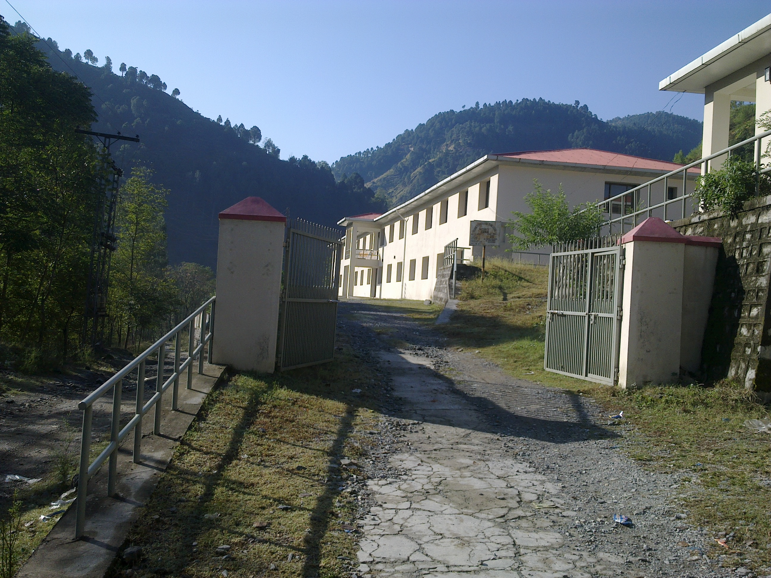 Civil Hospital Boi is the only Hospital in circle Bakot including 12 union councils.currently 3 doctors are working in this hospital.